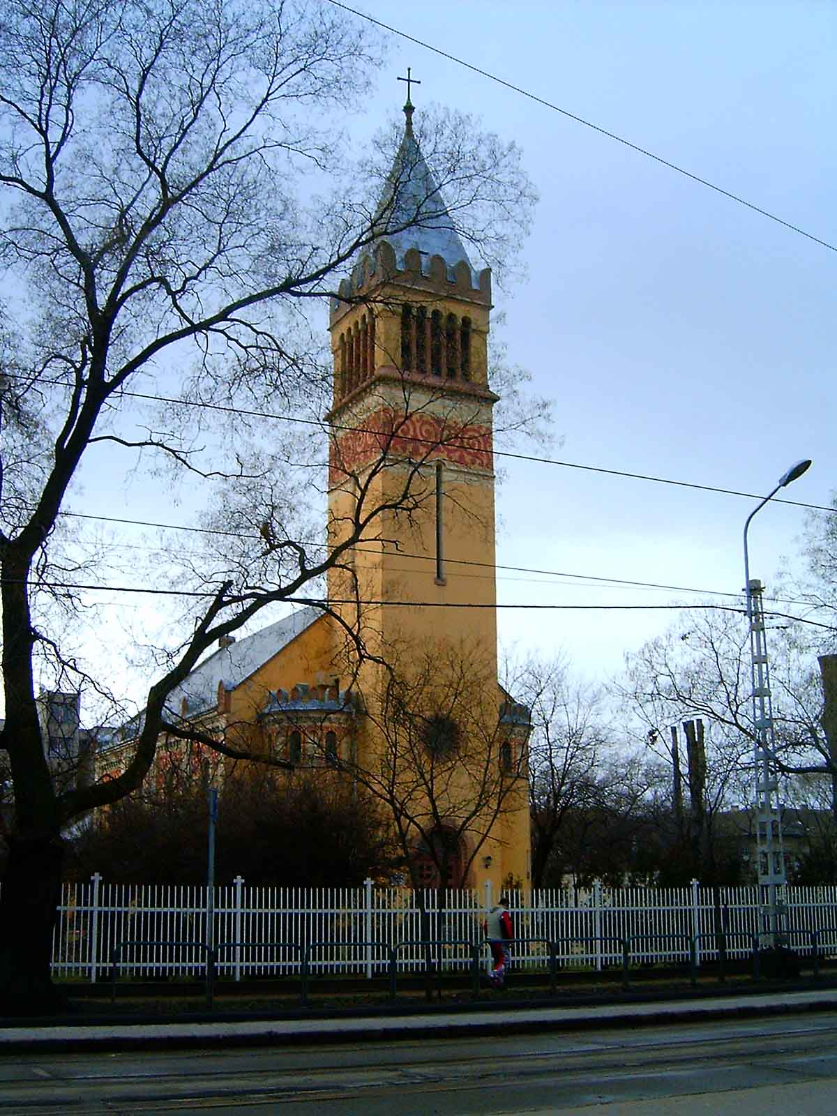 Protestant church in Kispest (19th district in Budapest)